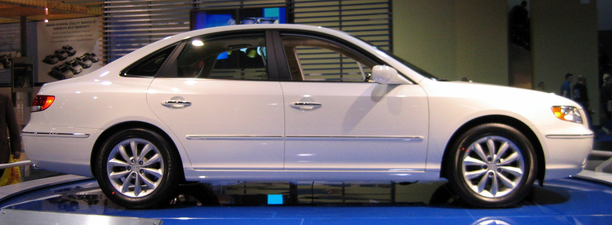 2006 Hyundai Azera. Photo by User:AudeVivere, taken at the 2006 Washington Auto Show.